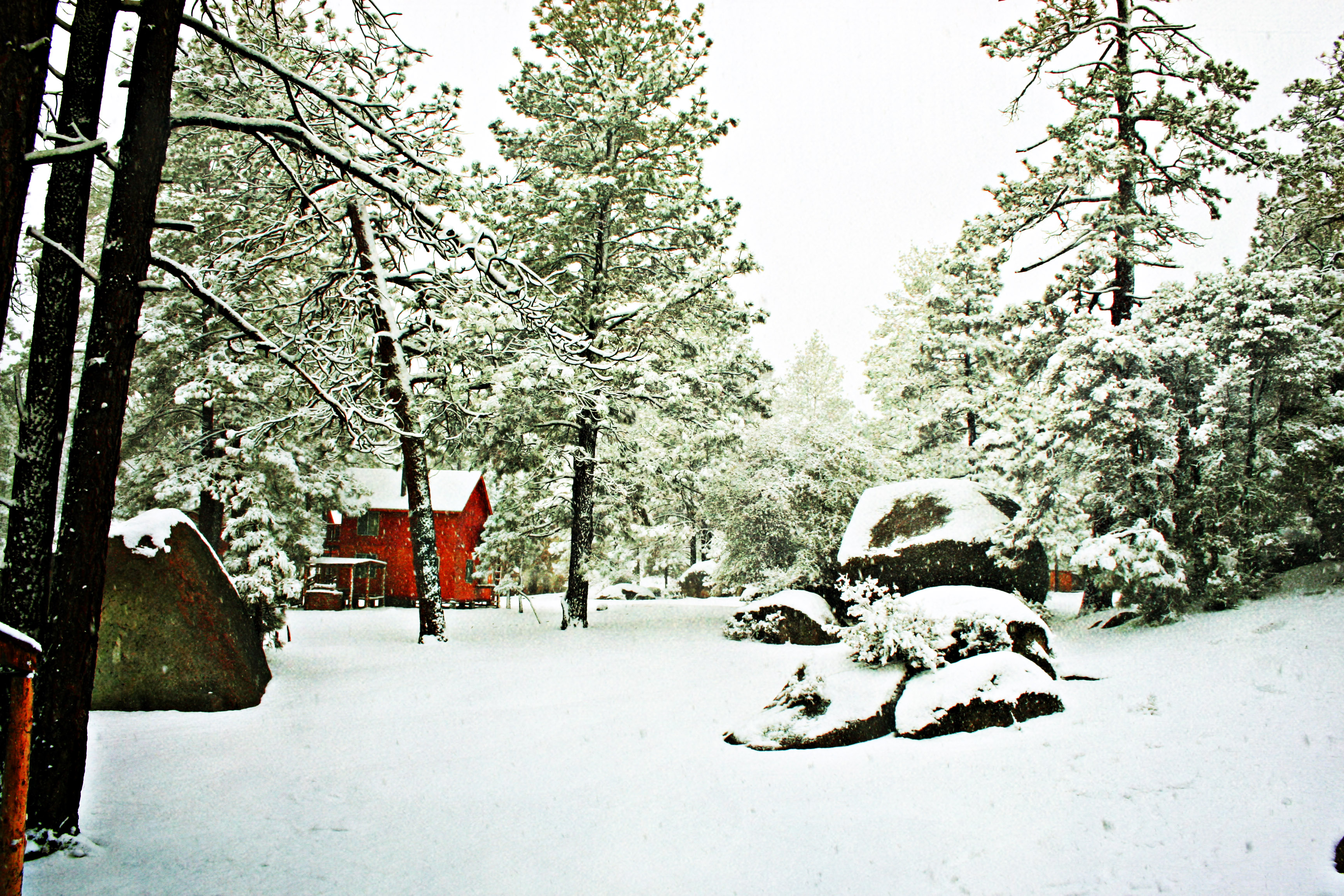 Winter at Hanson's Lagoon in the Sierra de Juárez, Municipality of Ensenada, Baja California. Within the Parque Nacional Constitución de 1857.